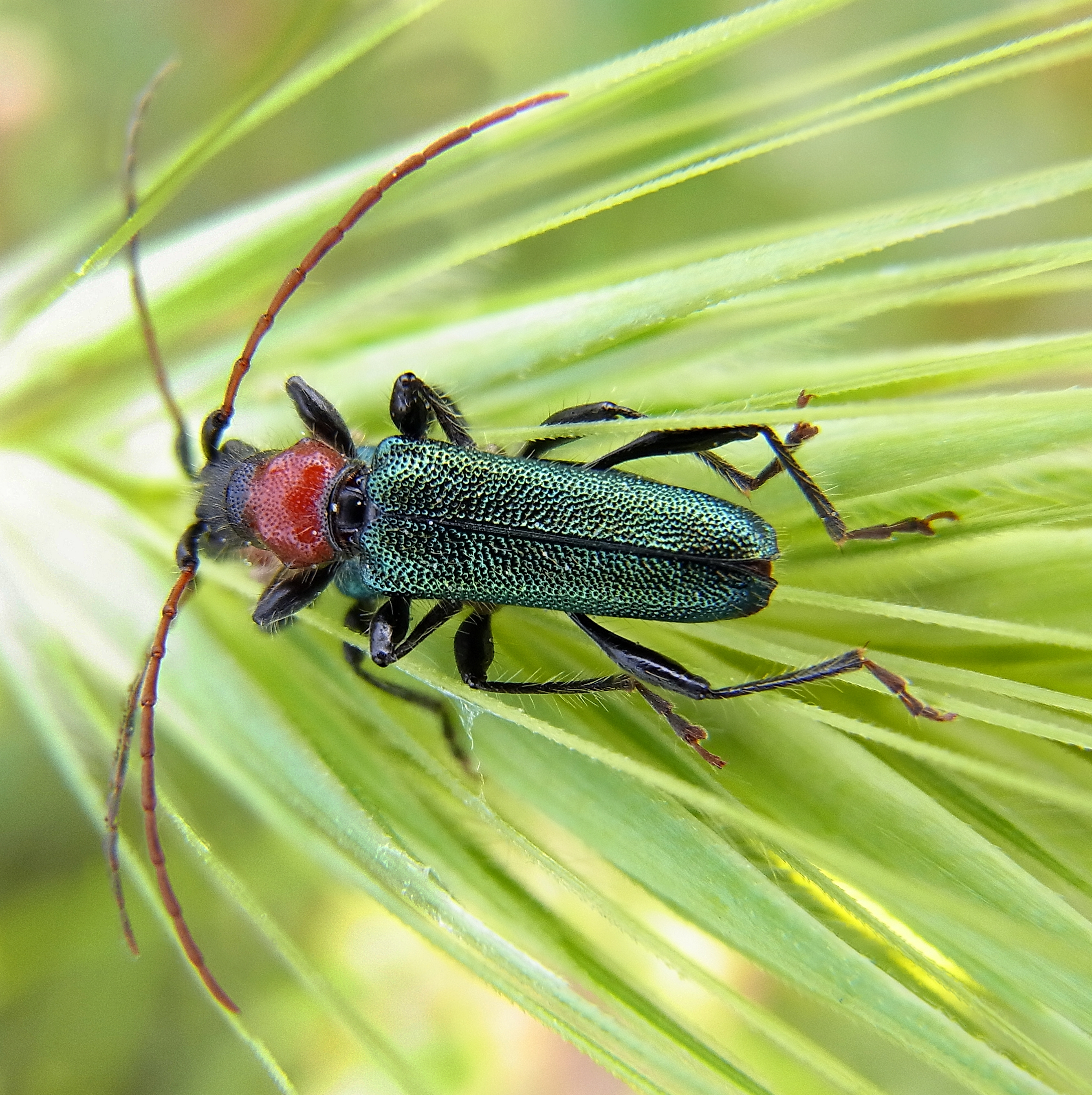 Certallum ebulinum from Northern Spain neaar Barasona-lake at 2011-05-13